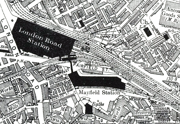 Manchester London Road station shown on a 6-inch scale map from 1915. The close proximity of Manchester Mayfield station is clearly illustrated. The covered footbridge that linked the two stations is also shown.